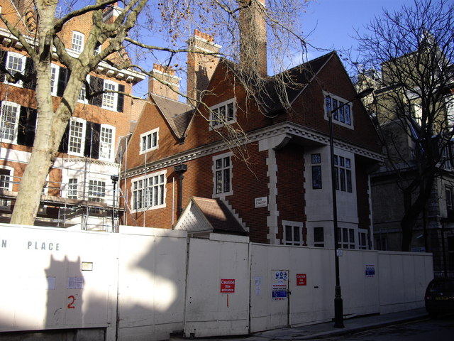 Development Lygon Place Ebury Street Lygon Place is behind Grosvenor Gardens and contains 6 large houses with a forecourt.